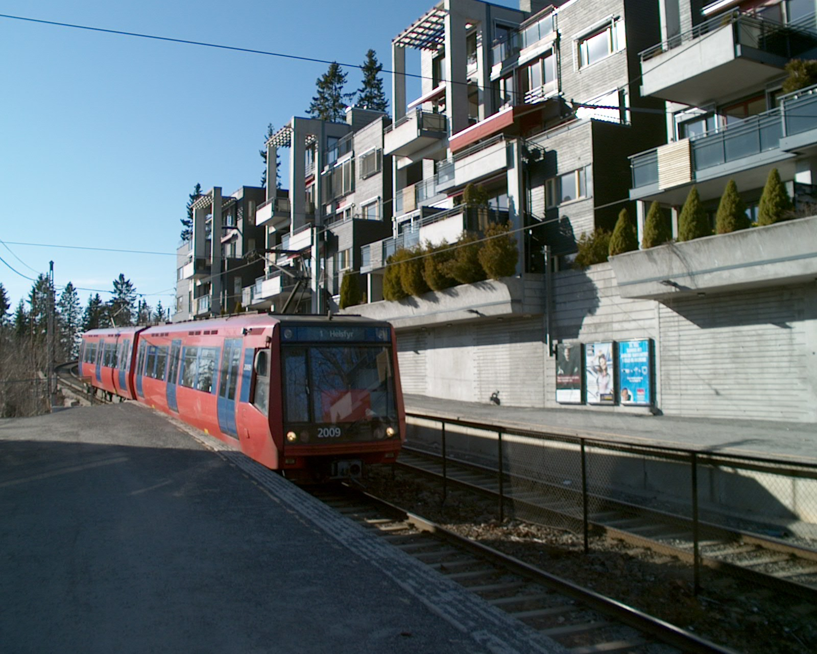 Oslo T-bane T2000-stock approaching Holmenkollen Station, Oslo, Norway